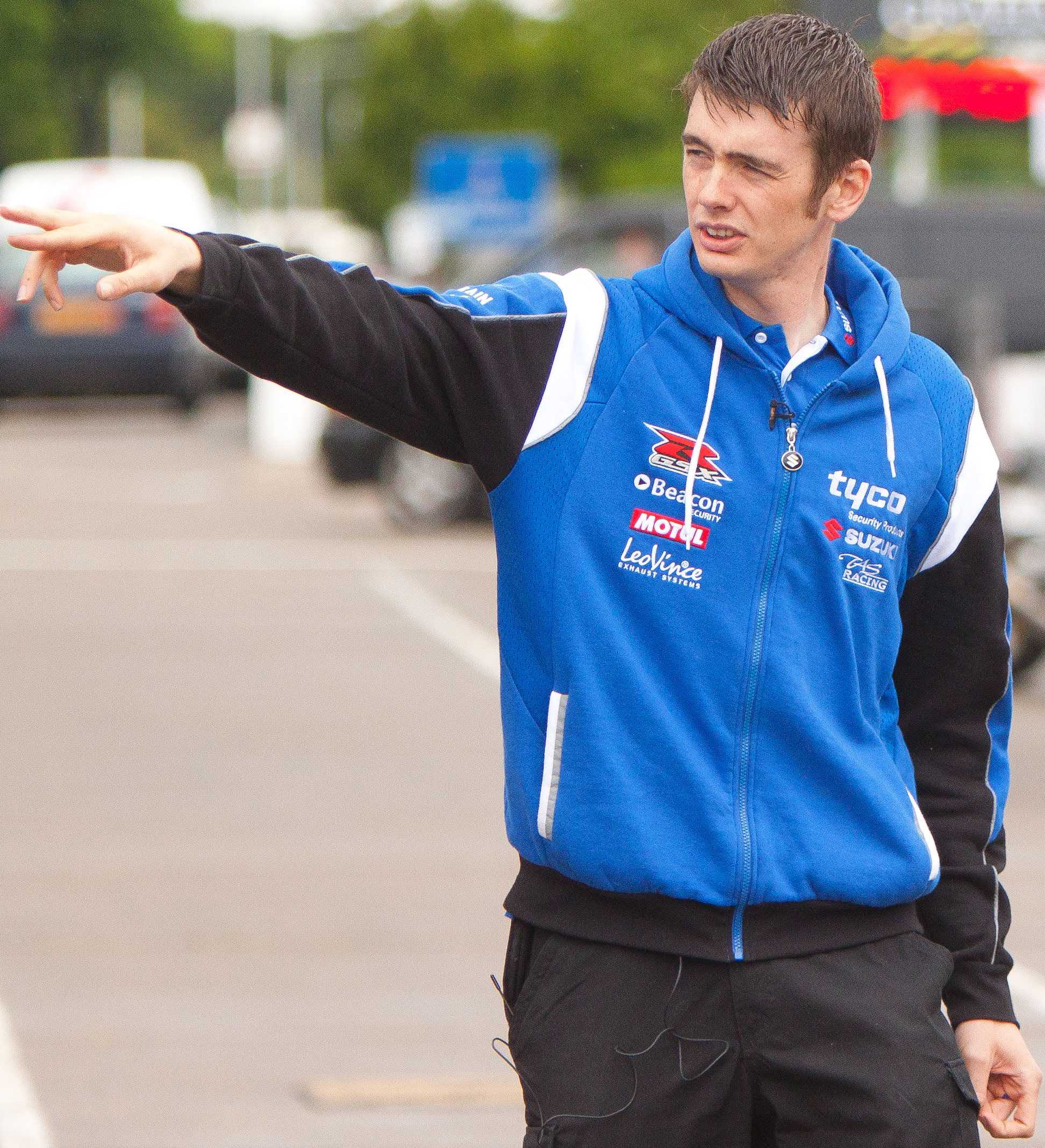 Conor Cummins emphasising a point when being interviewed by a film crew in Isle of Man TT Paddock 2012